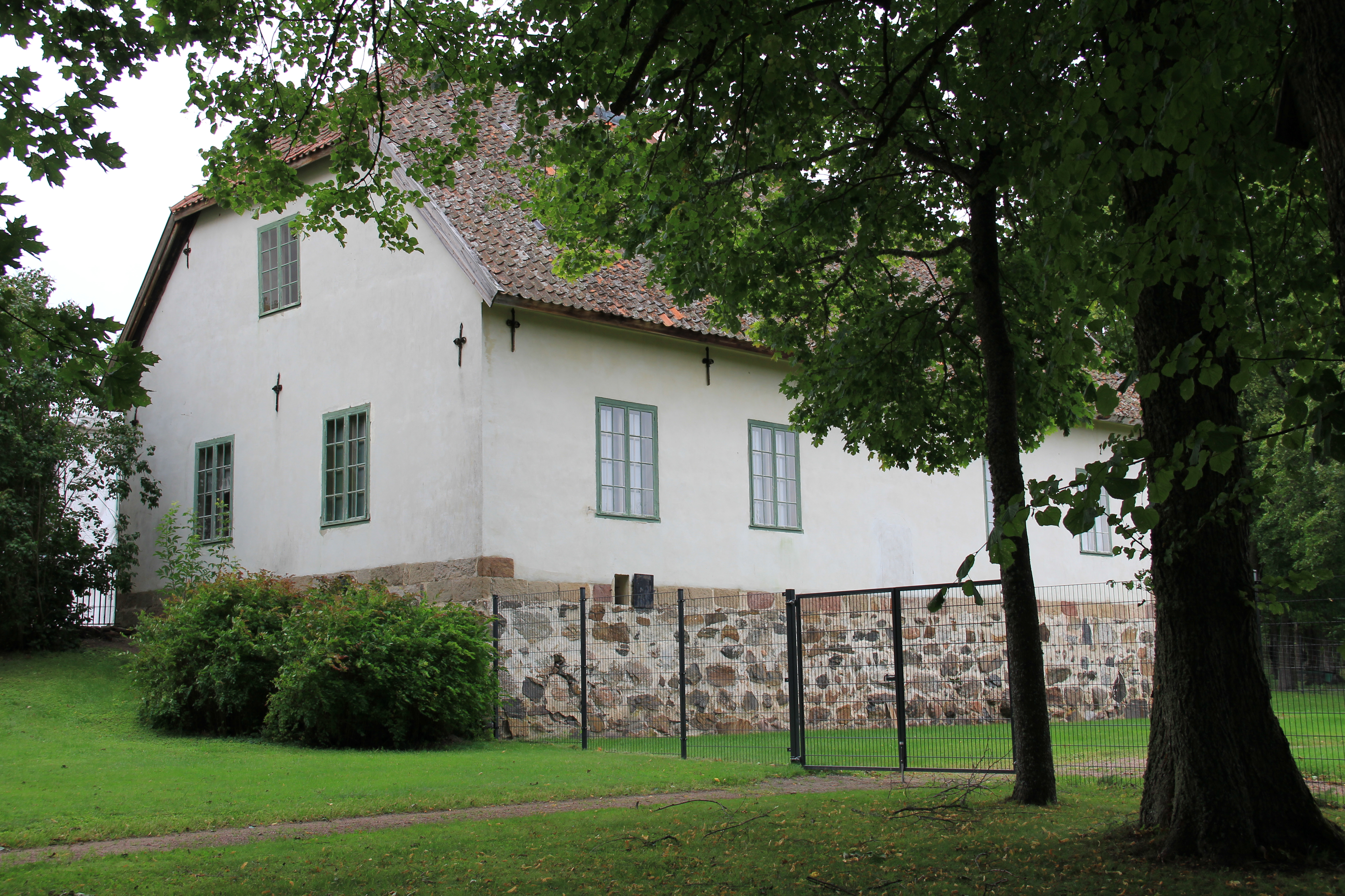 Louhisaari manor, Askainen, Masku, Finland. - Northwestern annex.